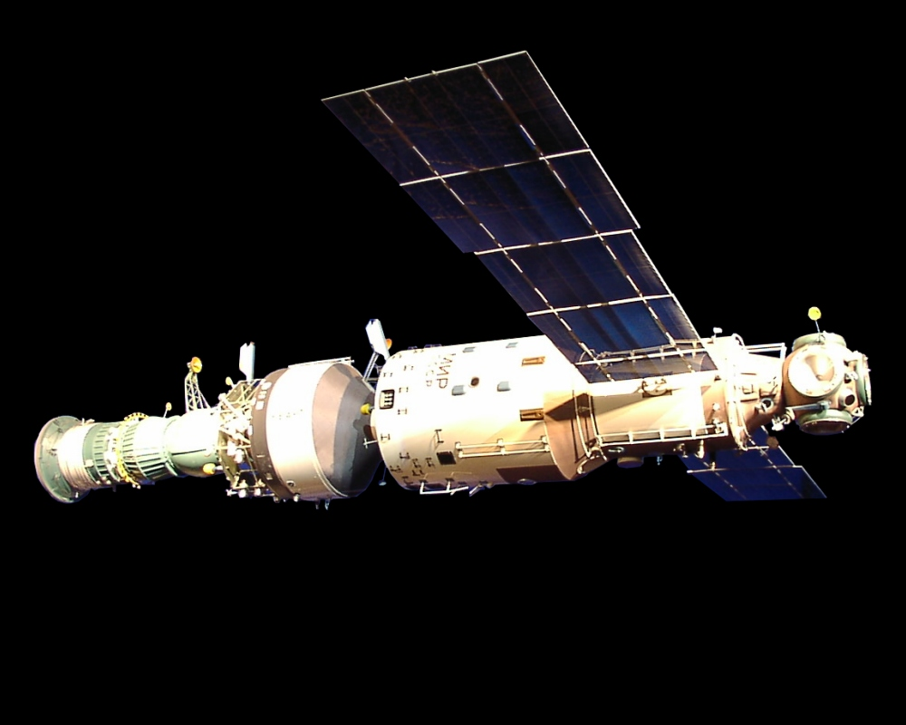 A photograph showing a model of the Soviet/Russian space station Mir at the 'Russia in Space' exhibition at Frankfurt Airport, Germany, in 2002. The core and Kvant-1 modules are shown, along with a docked Progress spacecraft.